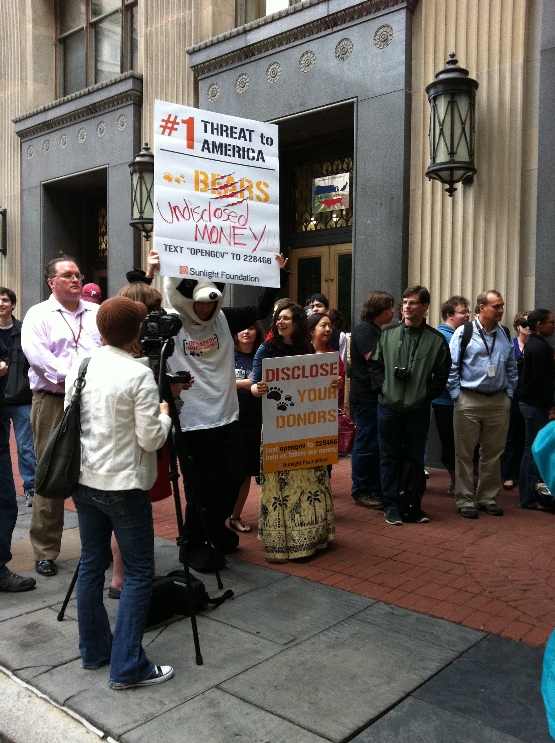 Outside the FEC waiting for Stephen Colbert